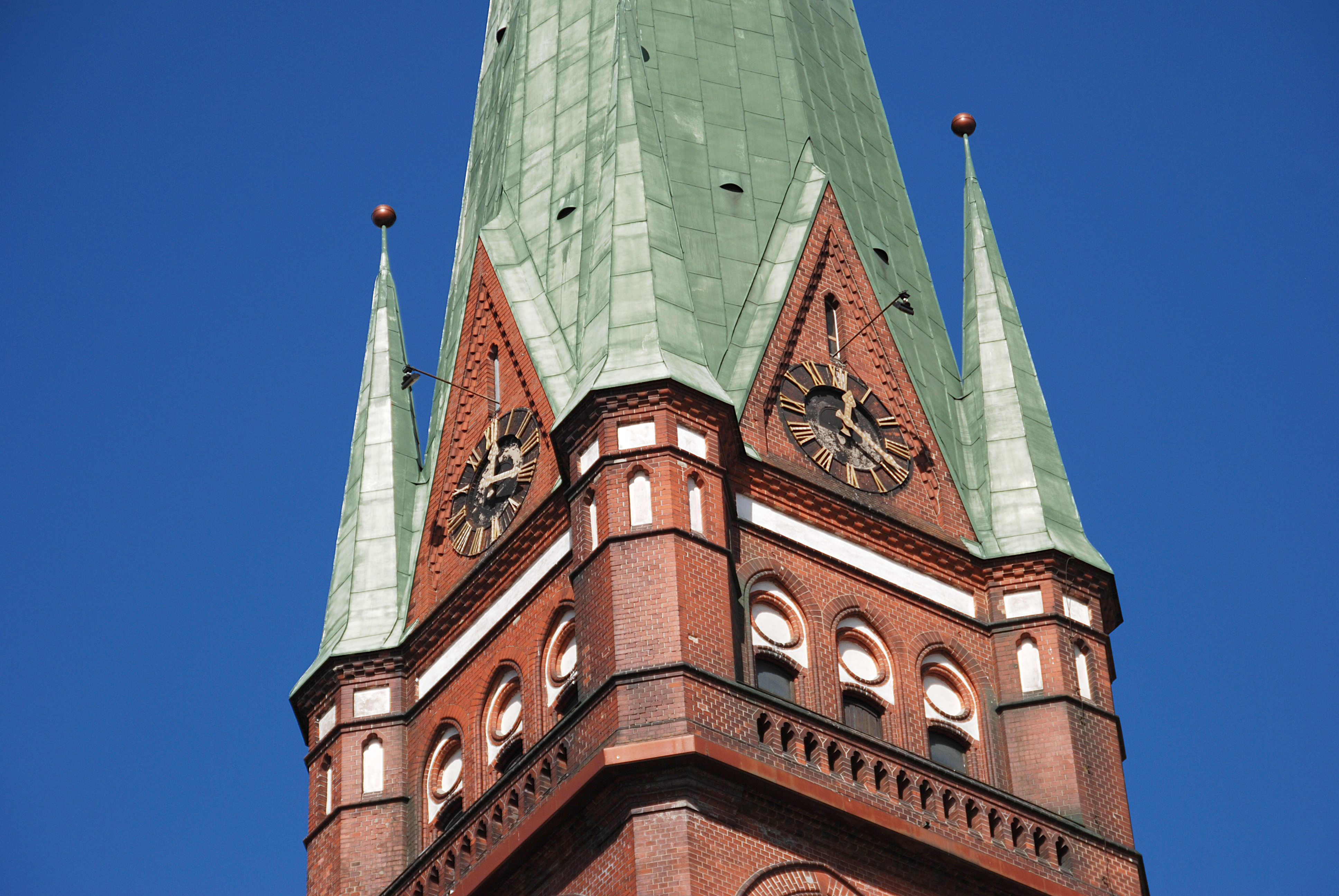 Curch "Heilig-Kreuz" in Frankfurt (Oder)